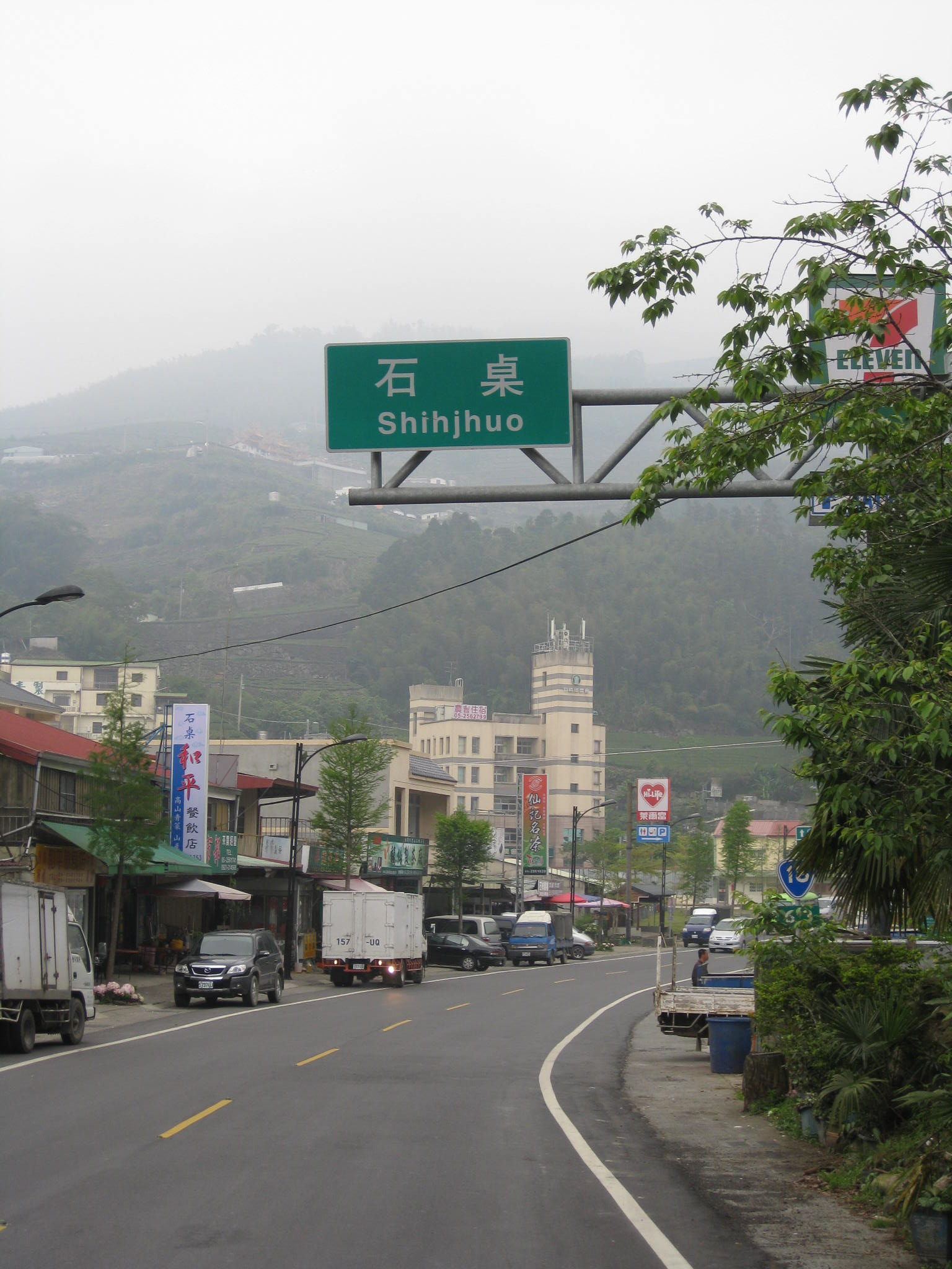 Shihjhuo is a small town in Zhuchi Township.It takes its name from its shape which is like a stone table.It is located on the eastern side of Chiayi County in Taiwan,near Lalauya.